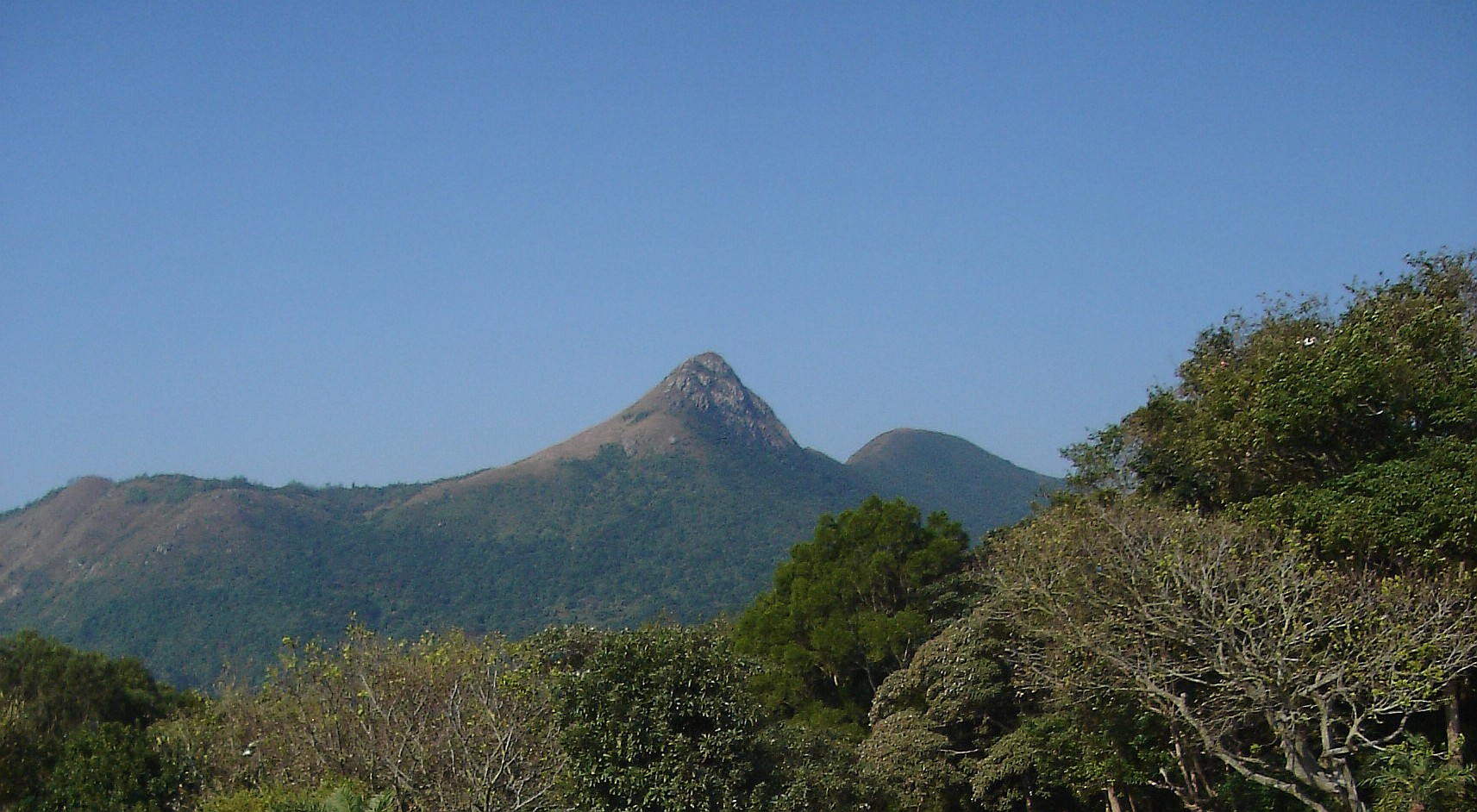 Taken by user:Ngchikit on 23 Dec 2006.